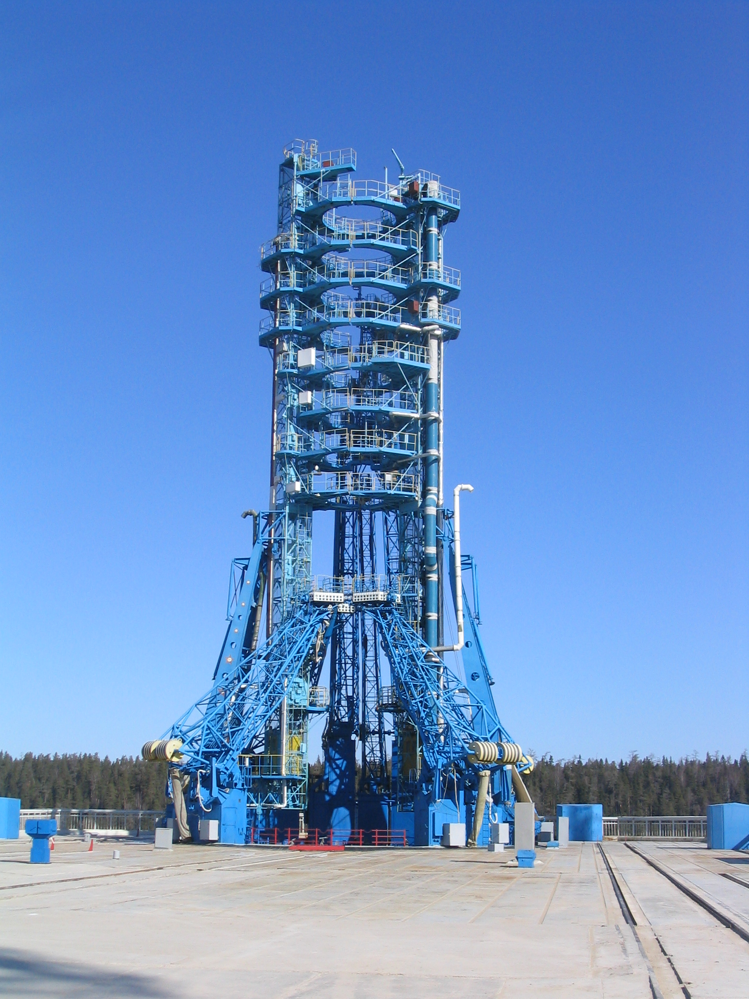 Soyuz-2 launch complex in Plesetsk